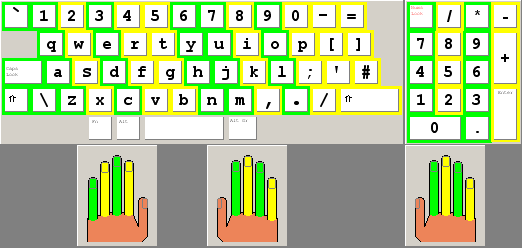 Finger and hand position on USA keyboard, normal